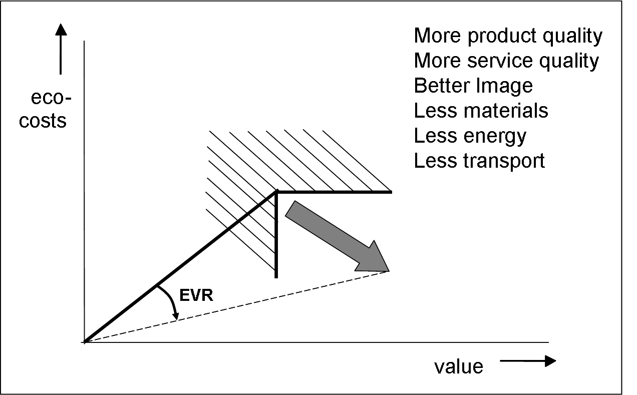 The double objective of design & engineering: lower eco-costs, but higher value